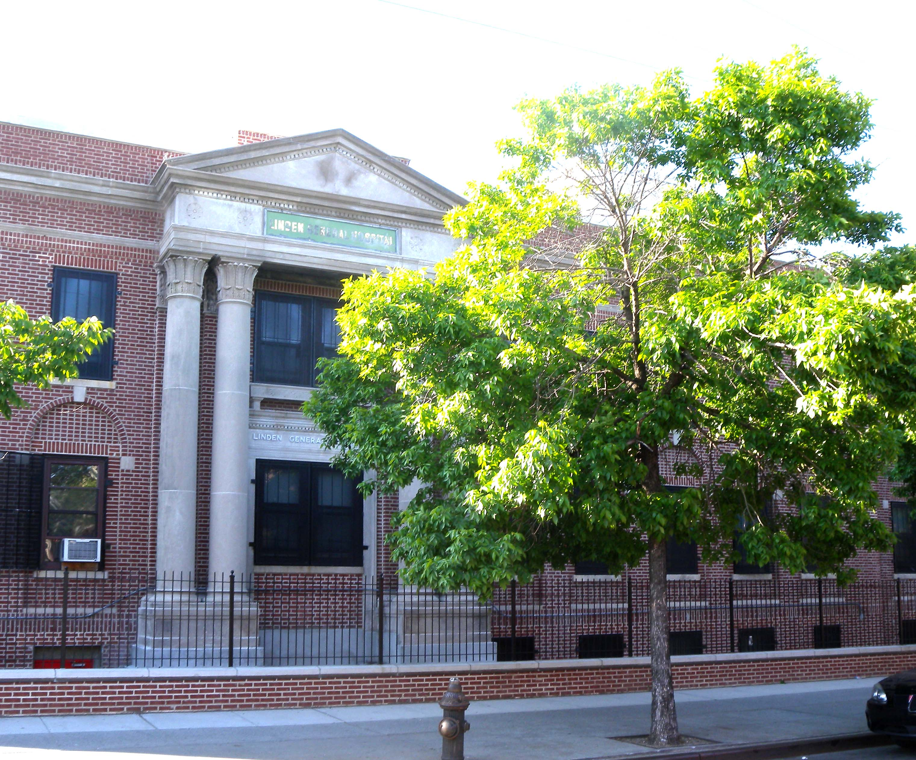 Looking north across New Lots Avenue at the former Linden General Hospital on a sunny afternoon. ZIP 11207.